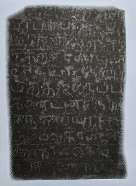 Thampalakamam inscription of Magha, 13th century AD